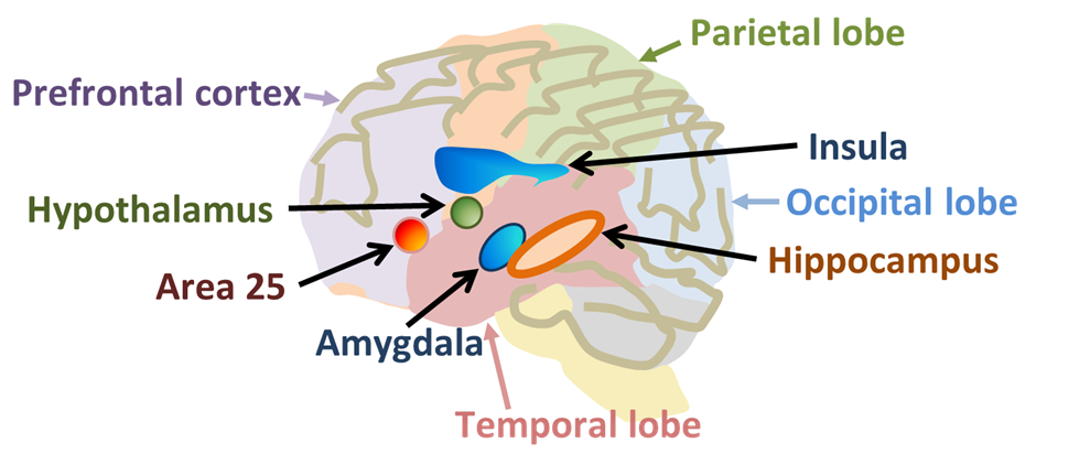 Several areas of the brain significant in personality disorders.